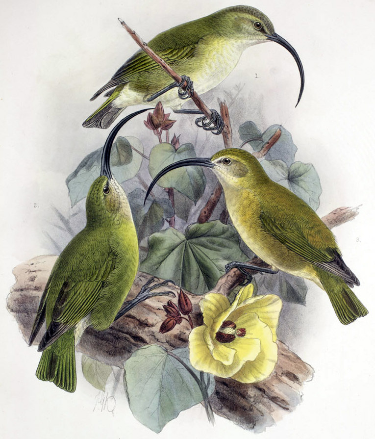 1&2. Illustration showing Maui Nui Greater ʻAkialoa (Hemignathus ( Akialoa ) lanaiensis) from Avifauna of Laysan By Lionel Walter Rothschild, 2nd Baron Rothschild (8 February 1868 – 27 August 1937) by John Gerrard Keulemans (1842-1912) (Dutch bird illustrator), which was issued from 1893--1900.